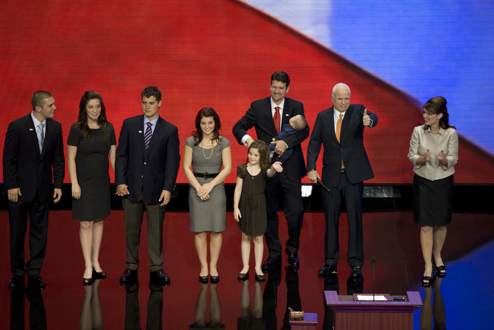 Sarah Palin and John McCain with the Palin family at Minnesota Republican Convention